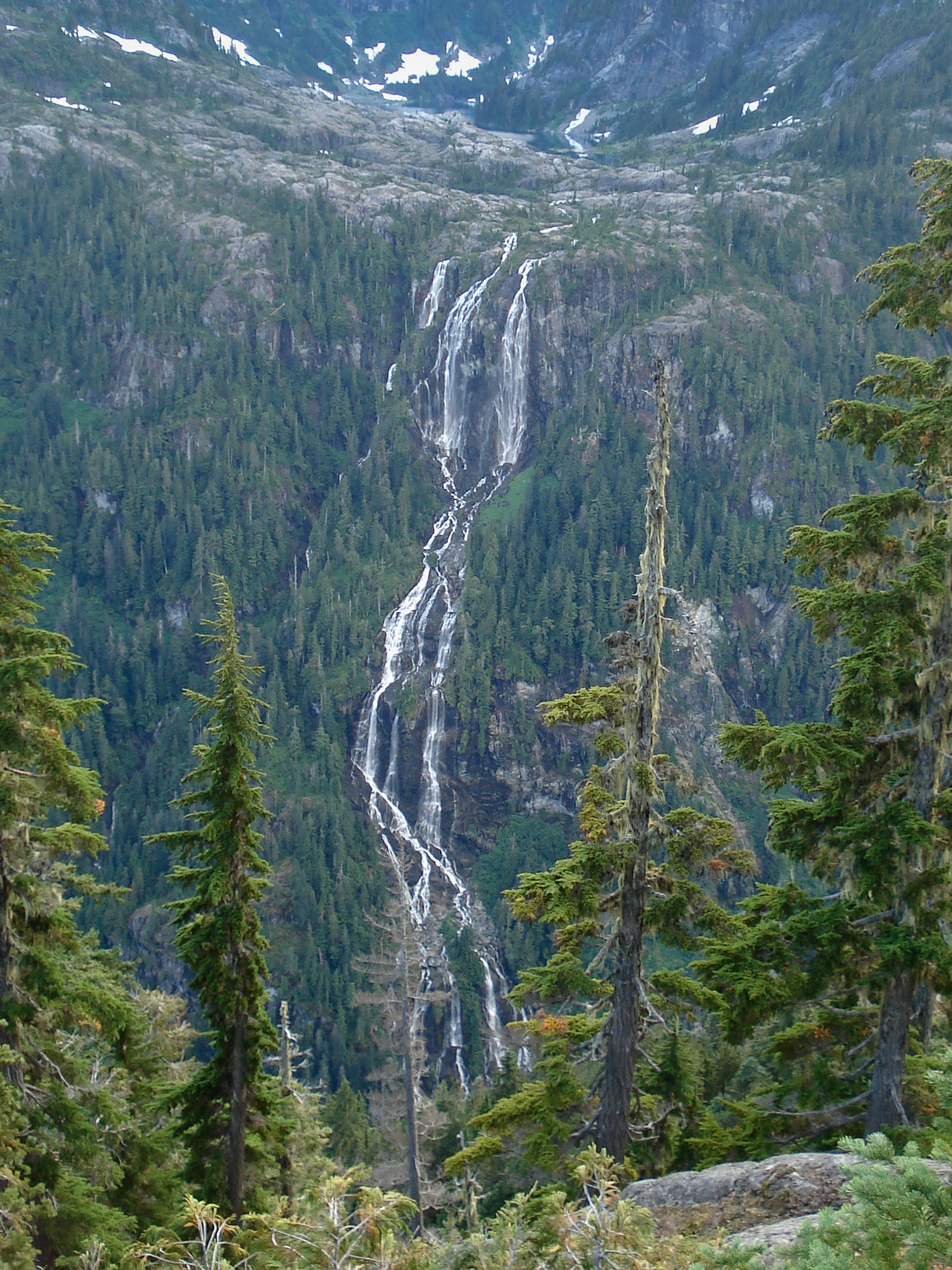 Della Falls, seen from the trail to Love Lake. Trees are Tsuga mertensiana. Strathcona Provincial Park, British Columbia